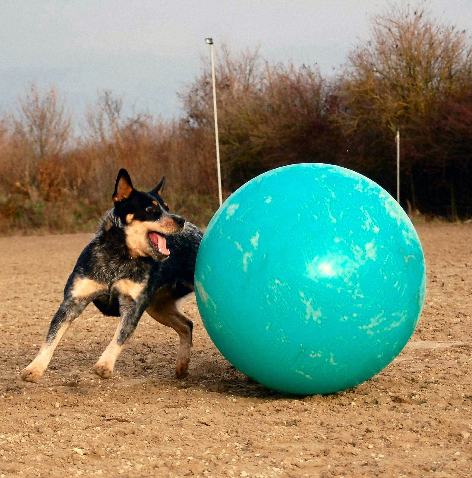 ACD "Silverbarn's Mayumi" playing with a big ball ("herding balls").